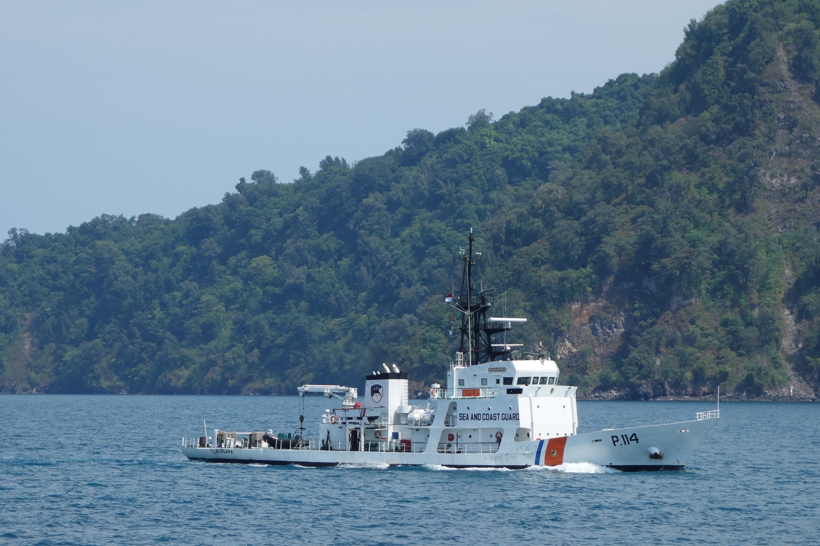 An Indonesian Coast Guard Ship Passing along the Island of Rakata